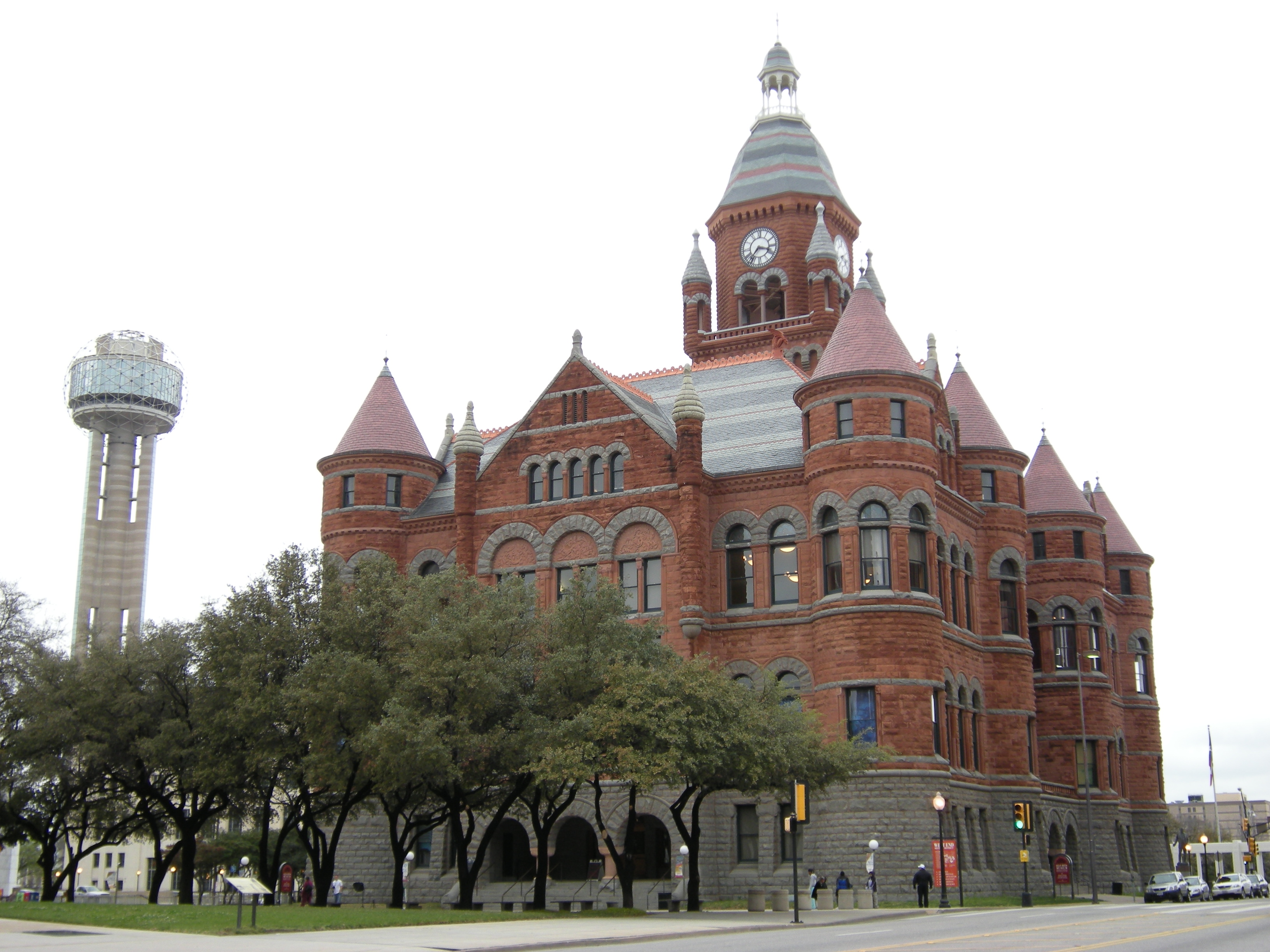 Old Red Museum, formerly Dallas County Courthouse ("Old Red Courthouse"), Dallas, Texas. More images